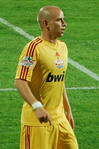 Pavel Hašek of FK Dukla Praha (Dukla Prague) during the match against FK Viktoria Žižkov